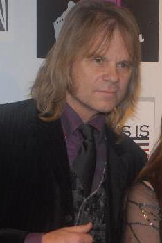 March 10, 2008: Cinema City Film Festival